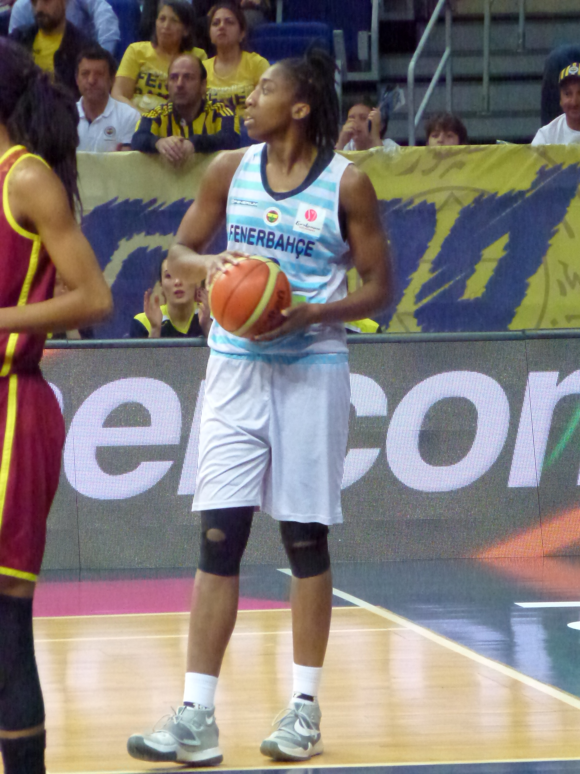 Fenerbahçe Women's Basketball - Nadezhda Orenburg 2015-16 EuroLeague Women semi final on 15 April 2016 in Ülker Sports Arena